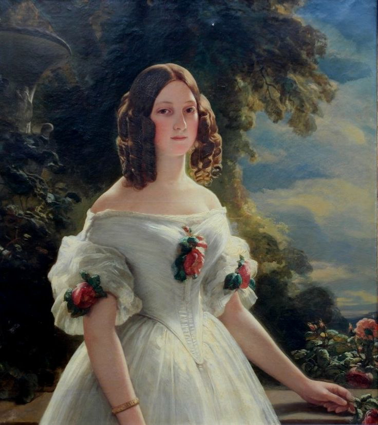 Victoria, duchess of Nemours, neé Princess of Saxe Coburg-Kohary Portrait after Winterhalter.